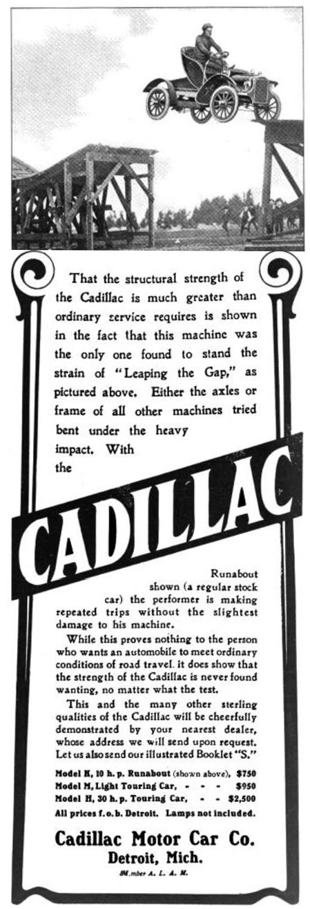 Cadillac Motor Car Company - Detroit, Michigan - 1906